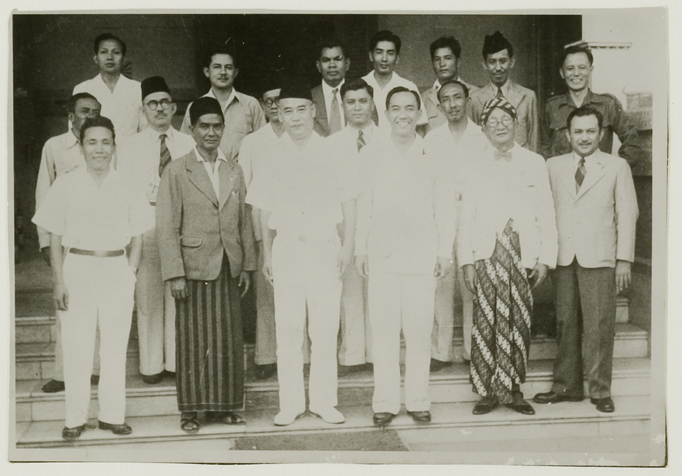 Indonesian leaders in Batavia